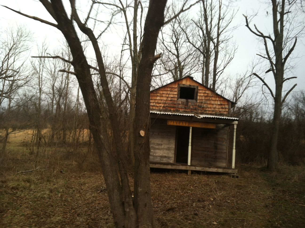 This is a photograph of the abandoned post office/general store in Oakland, West Virginia. This photo is to be used on Oakland's Wikipedia article.